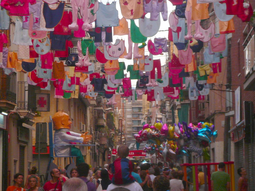 Alcolea de baix street, during Festa Major de Sants 2008, in Barcelona.